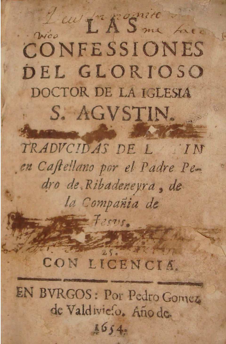 Book Confessions (St. Augustine), Pedro de Ribadeneyra, 1654